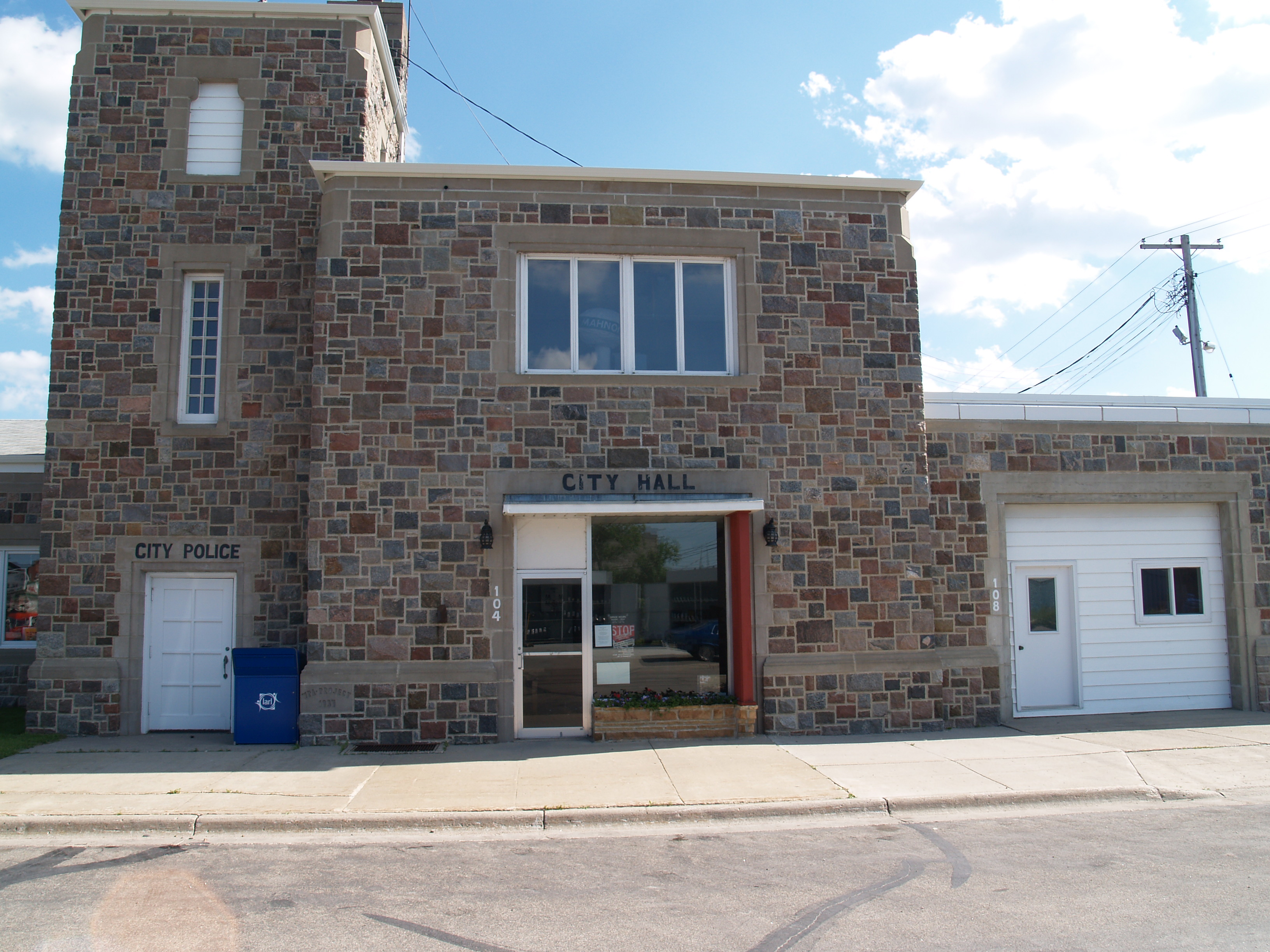 North face of the NRHP-listed Mahnomen City Hall in Mahnomen, Minnesota.